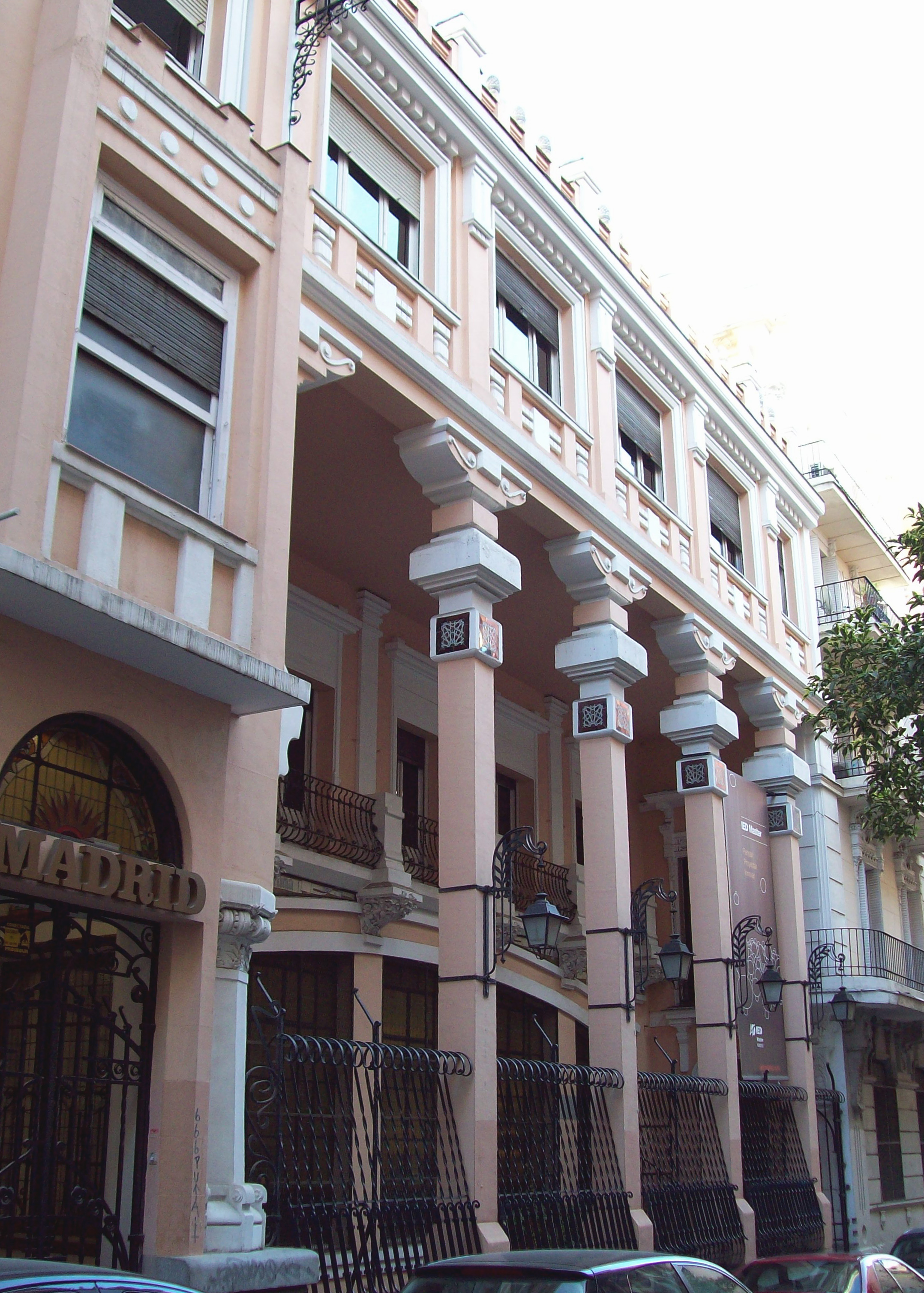 Former headquarters of Semanario Nuevo Mundo (a weekly paper) in Madrid (Spain).